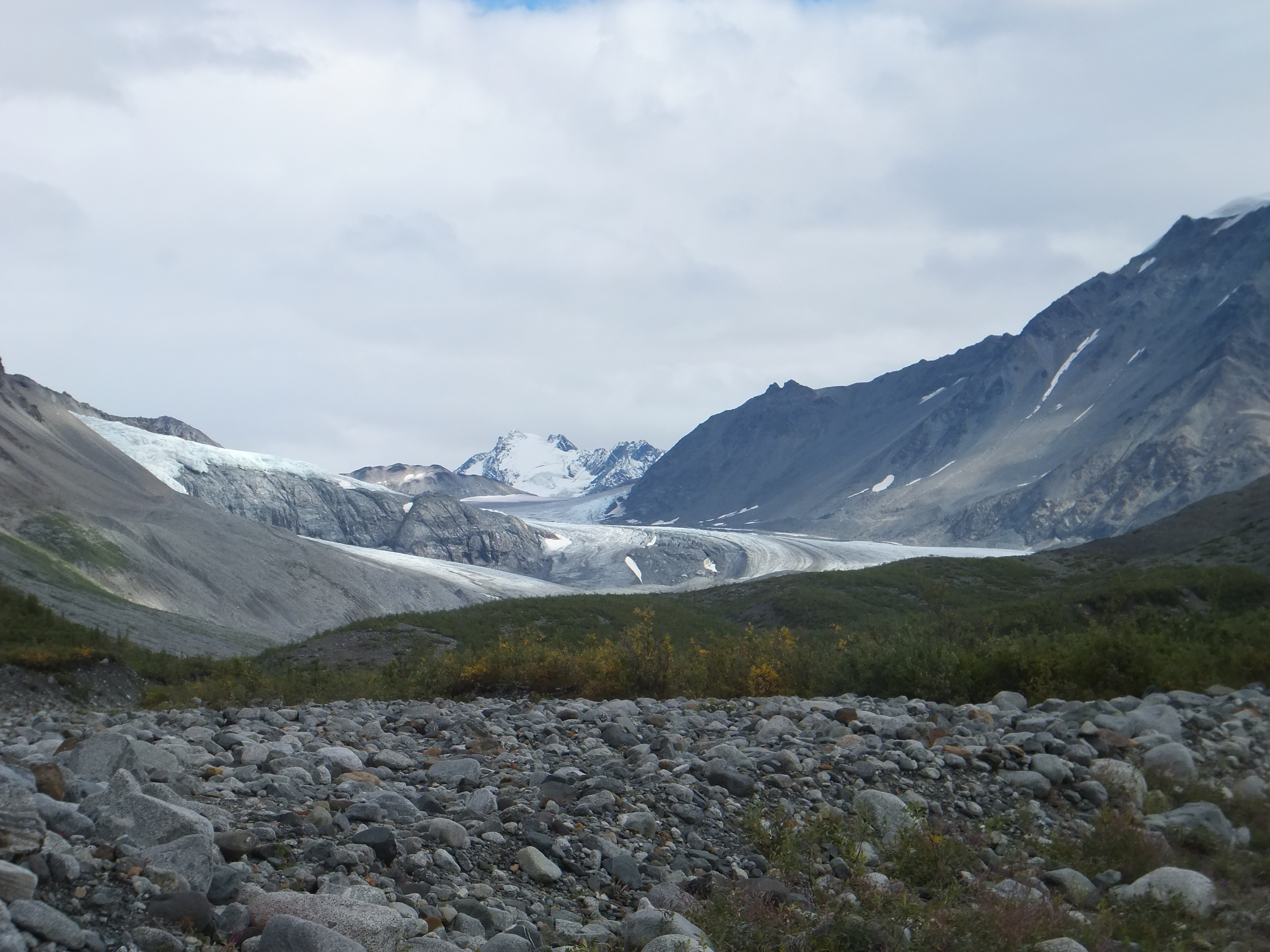 Gulkana Glacier, Alaska, view from a post labeled PEWE from West of the Glacier, August 2013.jpg